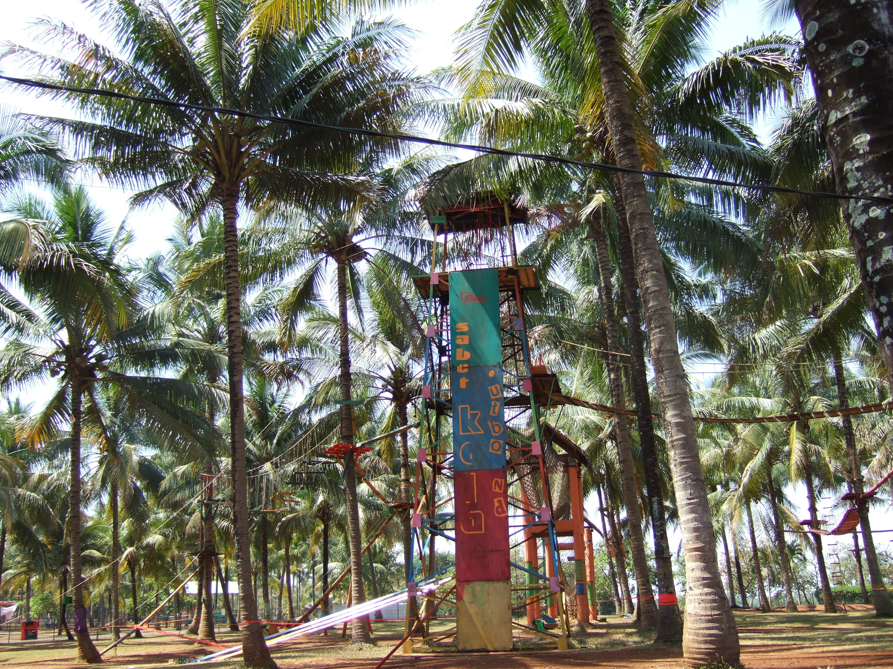 Sabut Kelapa Outbound, Mekarsari Amazing Tourism Park